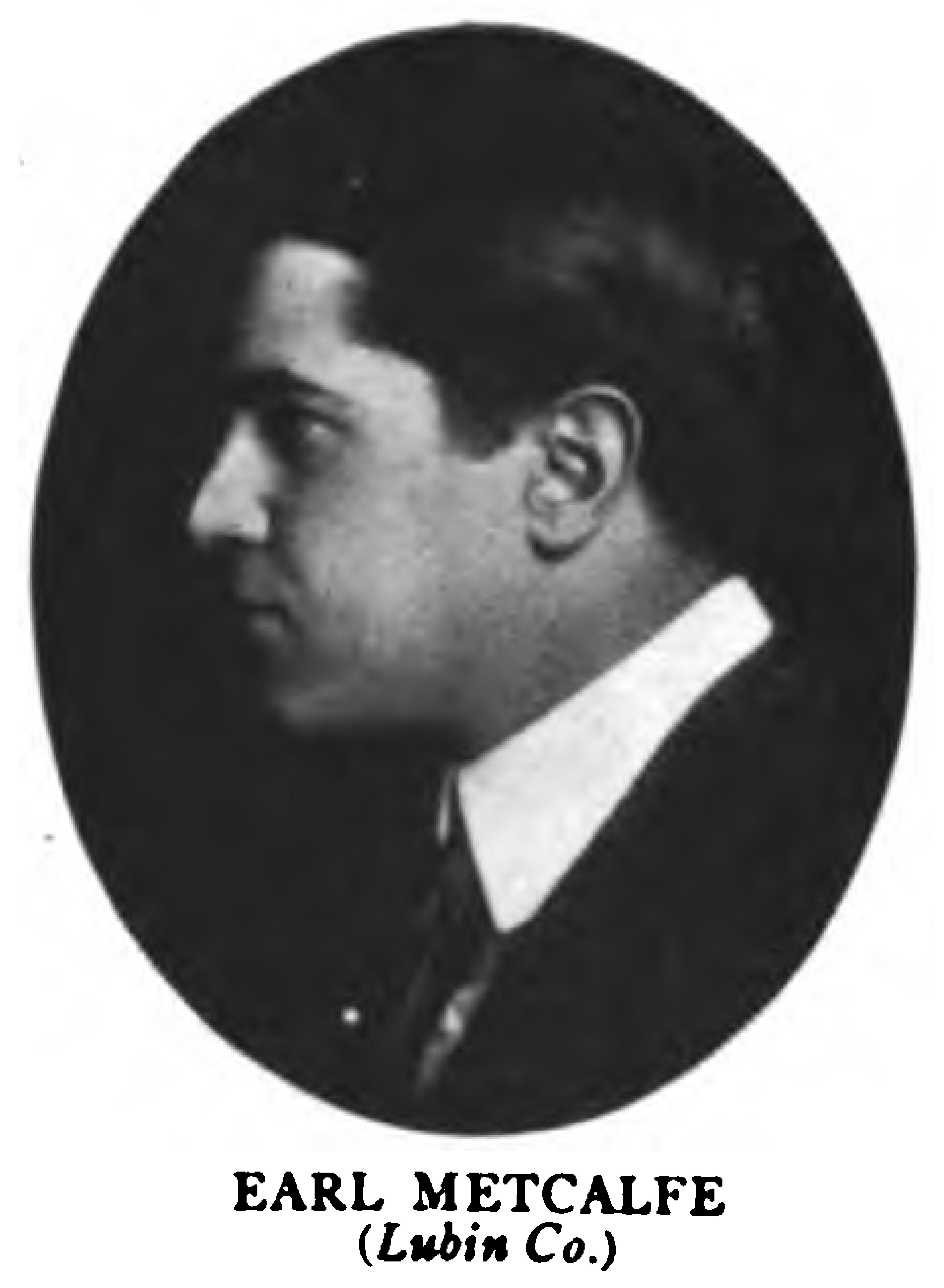 Born: Earl Keeney Metcalf was an American silent film actor and director. Born March 11, 1889 in Newport, Kentucky, USA Died: January 26, 1928 (age 38) in Burbank, California, USA